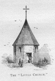 A drawing of the 17th century Dutch reformed church in then Bergen